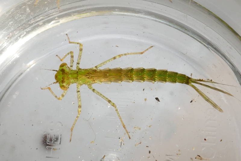 Erythromma najas (Coenagrionidae) (Large Redeye) - (larva - nimf), Buren (Gld.) - Tichelgaten, the Netherlands